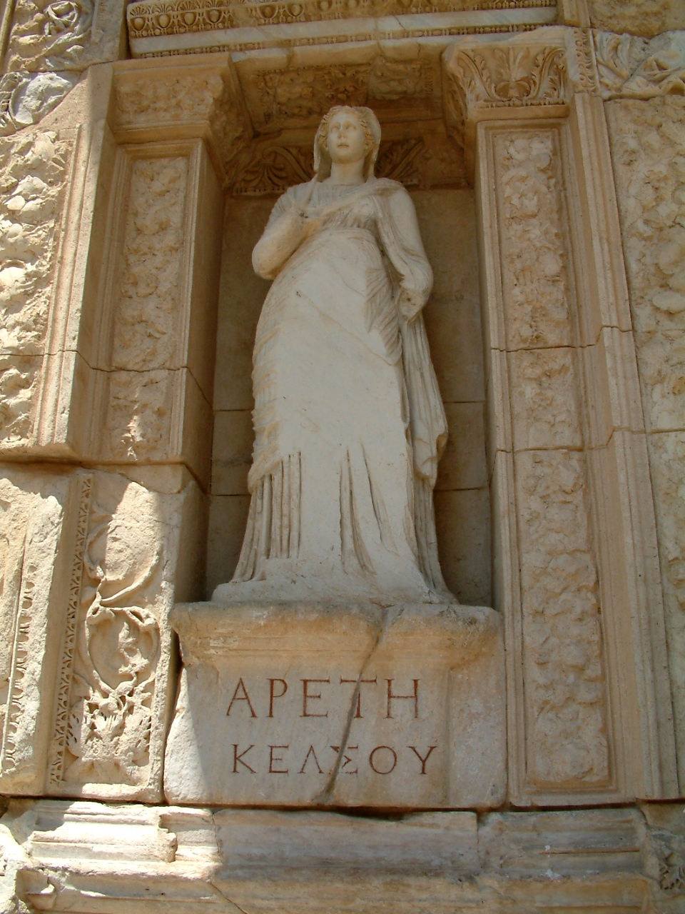 Celsus Library in Ephesus, Turkey. July 2005 Virtue